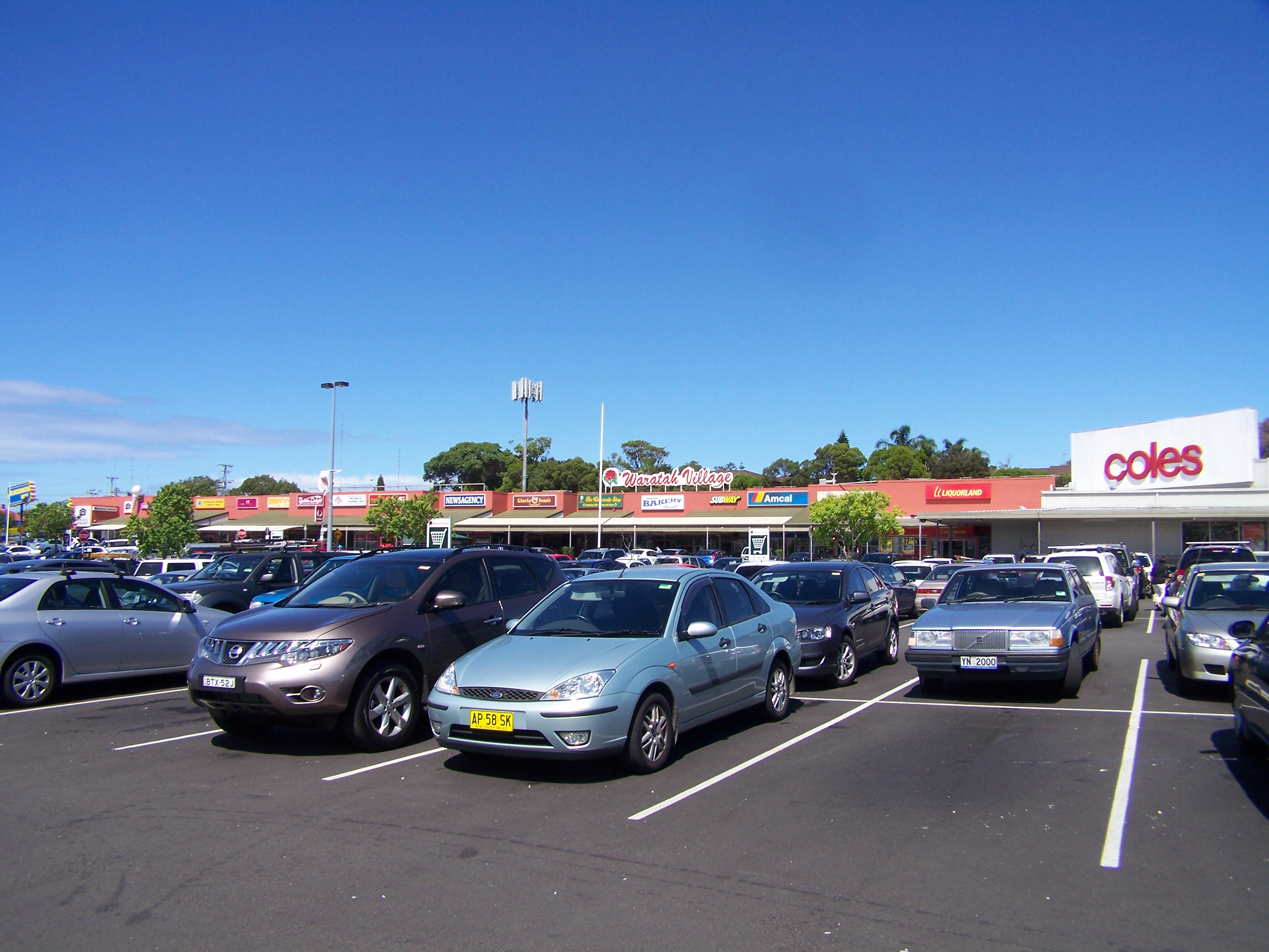 Waratah Village (Shopping Centre) at Waratah in Newcastle.